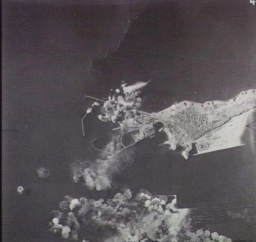 AWM caption: HELGOLAND, GERMANY, 1945-04-18. AERIAL VIEW FROM 17,500 FEET. THE AIMING POINT PHOTOGRAPH WAS TAKEN FROM JOHN MUSGROVE'S PLANE (NO.576 SQUADRON RAF). HELGOLAND WAS ATTACKED ON 1945-04-18 BY 955 LANCASTER AND HALIFAX AIRCRAFT. EACH CARRIED 10 X 1,000LB GP BOMBS, 6 X 500LB MC BOMBS, AND 4 X 250LB GP BOMBS.